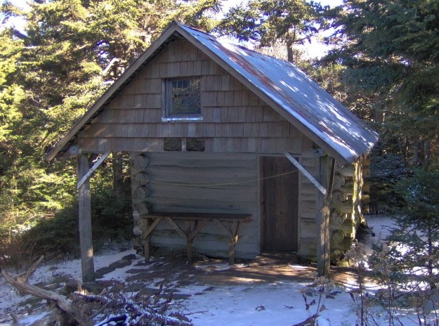 The Appalachian Trail shelter just below the summit of Roan High Knob, on the Tennessee-North Carolina border. The shelter was built in the 1930's, and originally used by the fire marshall who manned a nearby fire tower. It is now maintained by the Tennessee Eastman Hiking and Canoeing Club (TEHCC), and at 6,280 ft./1,914 meters is the highest shelter on the entire trail.